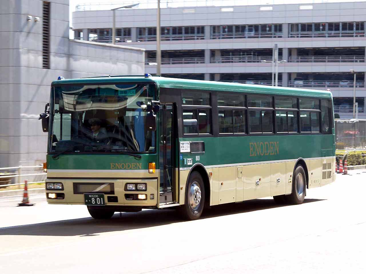 Enoshima Electric Railway (Enoden) Bus airport limousine, operating in Haneda and Fujisawa, Kanagawa route. Model: Nissan Diesel Space Runner RA PKG-RA274TAN License plate: KNY230 A-801（横浜230あ・801） Place: Tokyo International Airport, Ota ward, Tokyo Japan